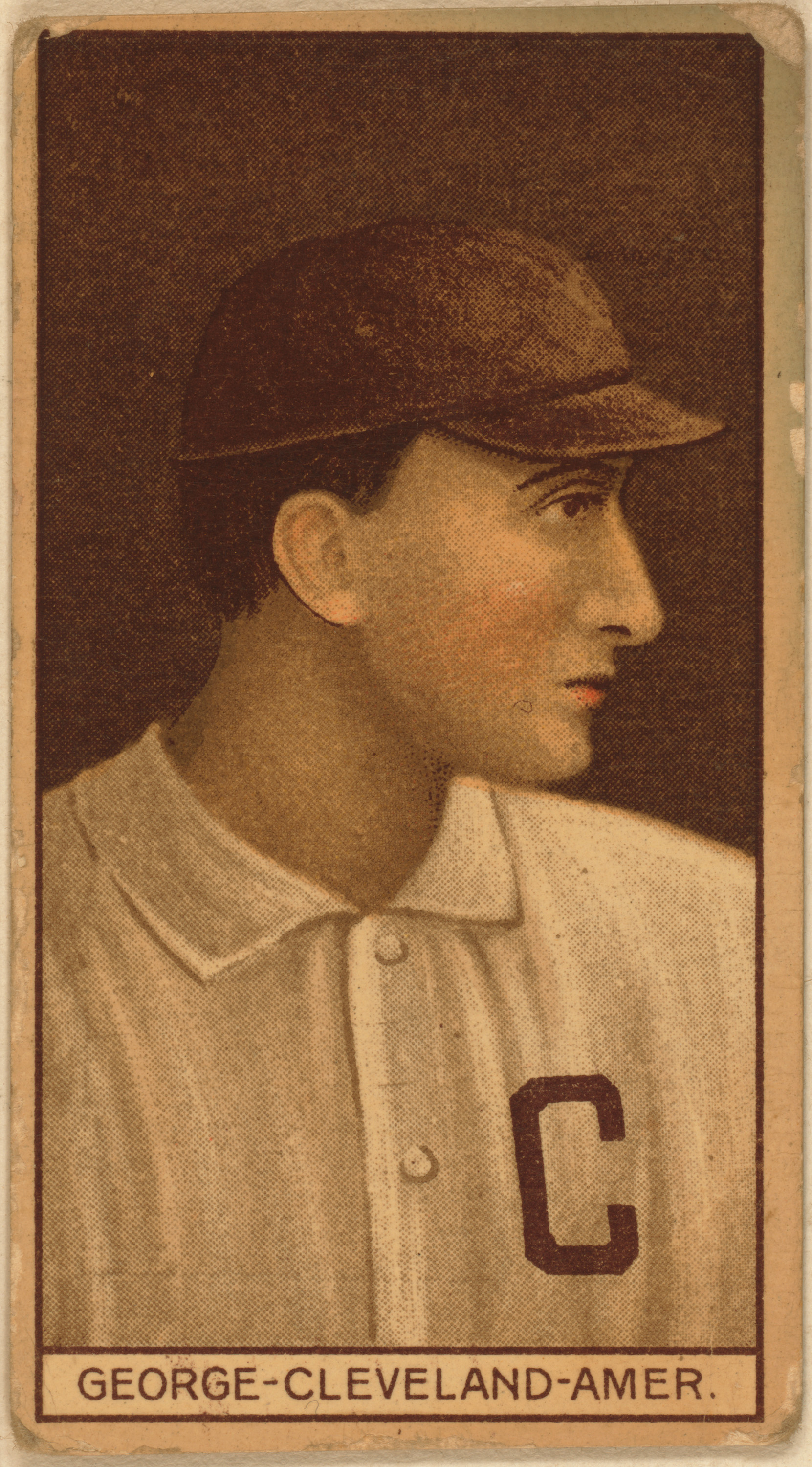 Lefty George of the Cleveland Naps. T207 Brown Backgrounds 1912 reverse